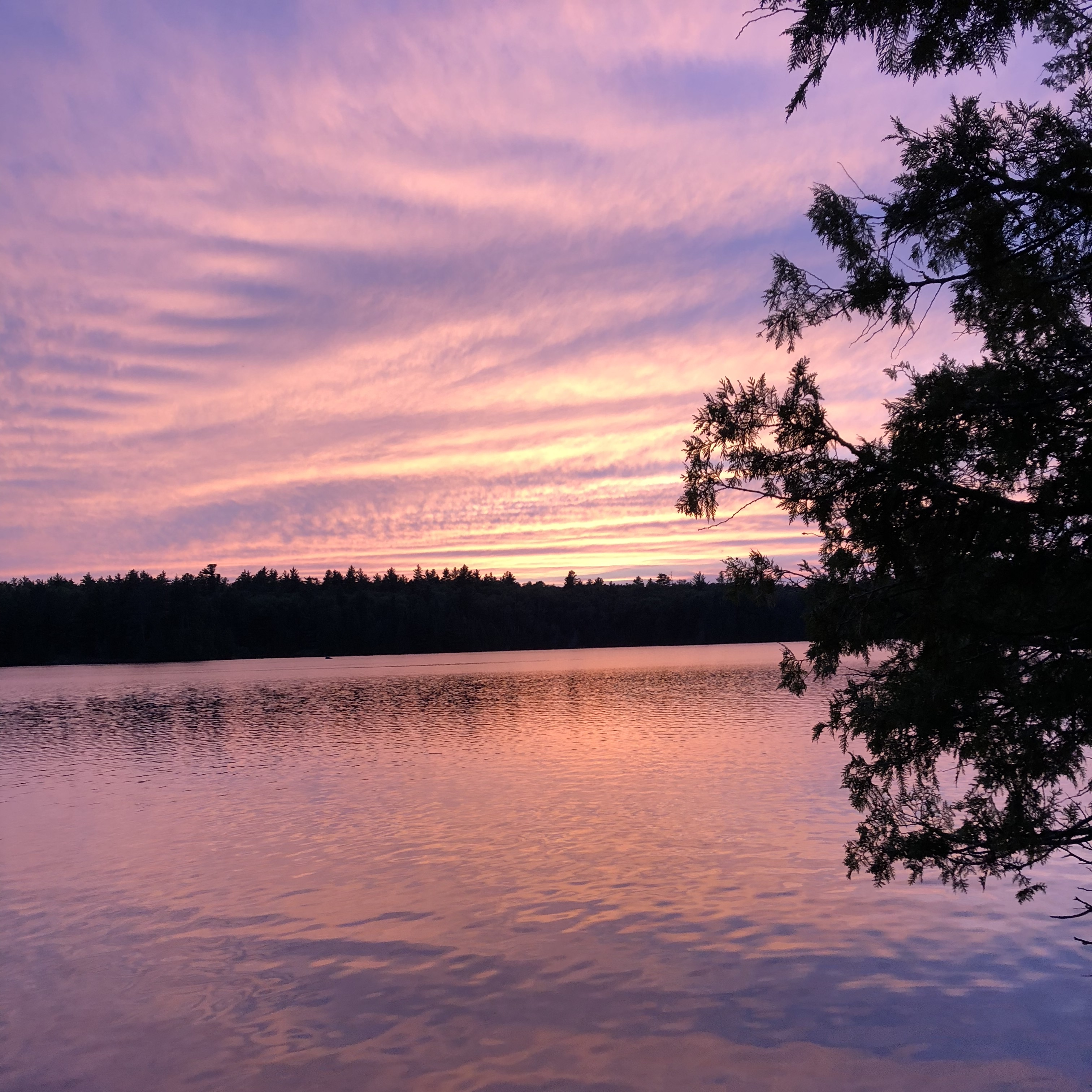 This is a photo of a sunset taken on in boundary waters canoe area wilderness in Minnesota, U.S.A